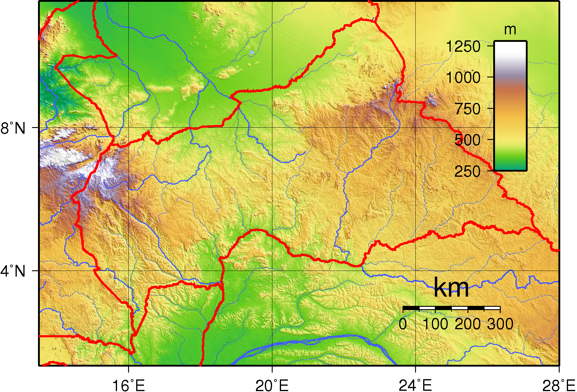 Topographic map of Central African Republic. Created with GMT from GLOBE data.